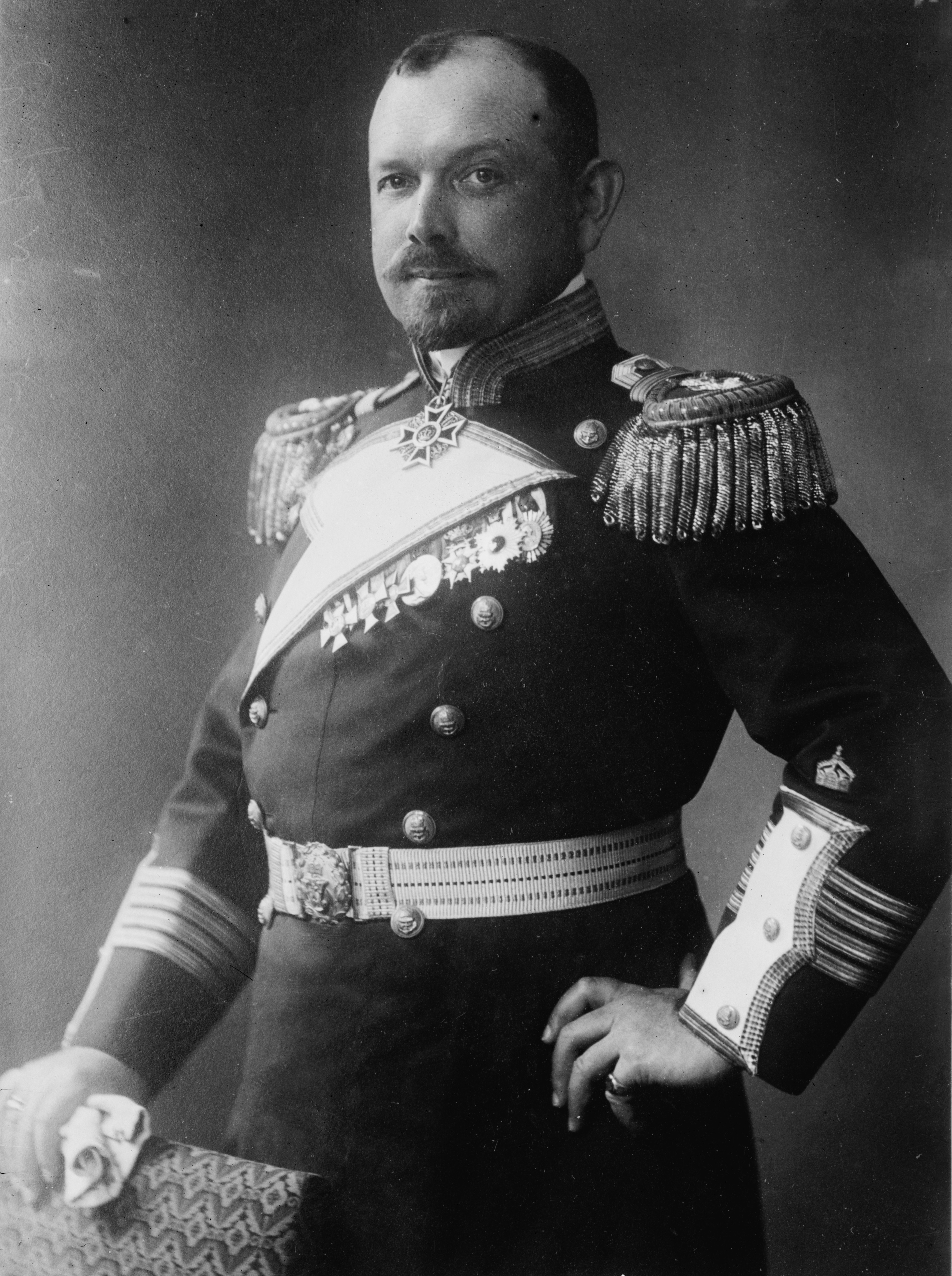 German captain and later rear admiral Wilhelm von Krosigk